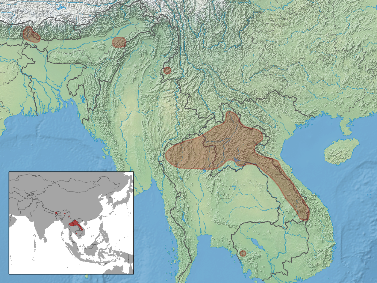 geographic distribution of Myotis annectans